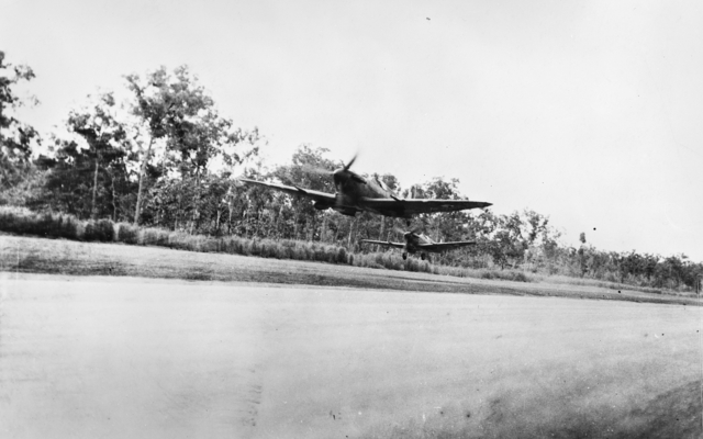 AWM Caption: 1943-03-24. DARWIN. SPITFIRES TAKE OFF TO INTERCEPT JAPANESE RAIDERS.